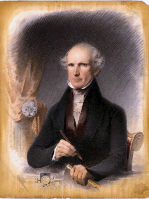 Self-portrait watercolor on board by James Barton Longacre.